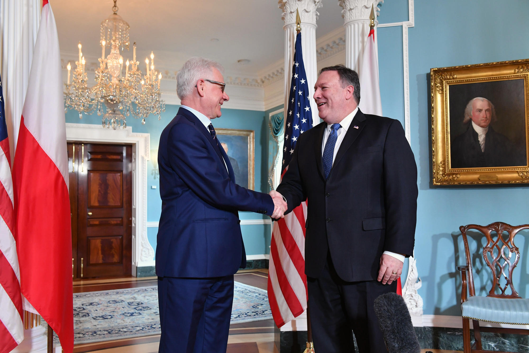 U.S. Secretary of State Mike Pompeo meets with Polish Foreign Minister Jacek Czaputowicz, at the U.S. Department of State in Washington, D.C., May 21, 2018. [State Department photo/ Public Domain]